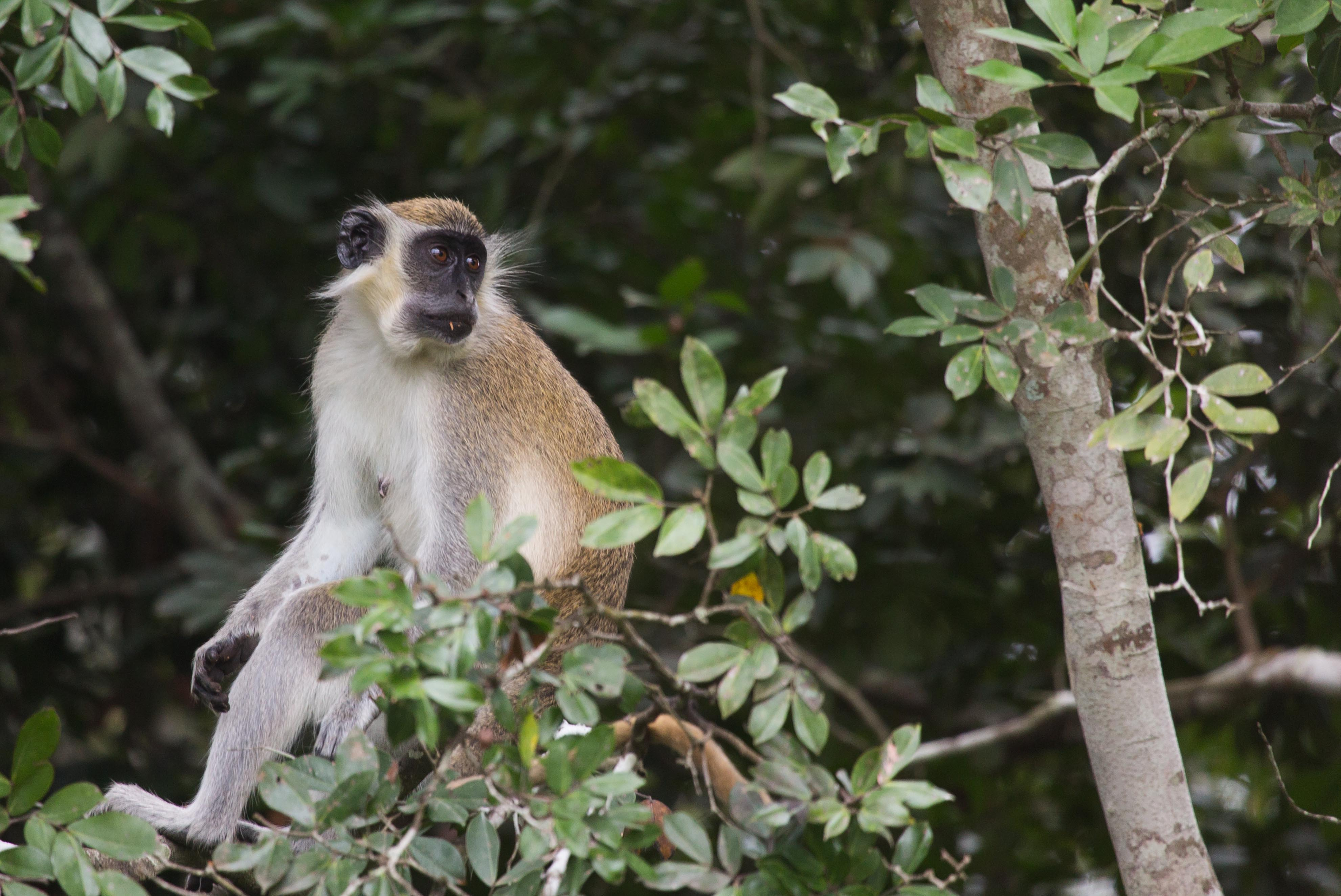 Green monkey in the comoe NP